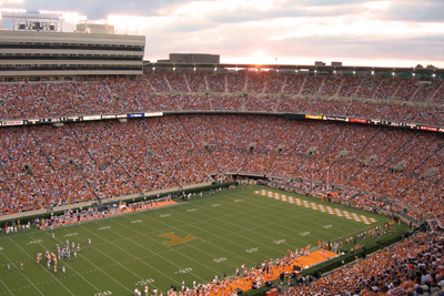 California at Tennesee 2006